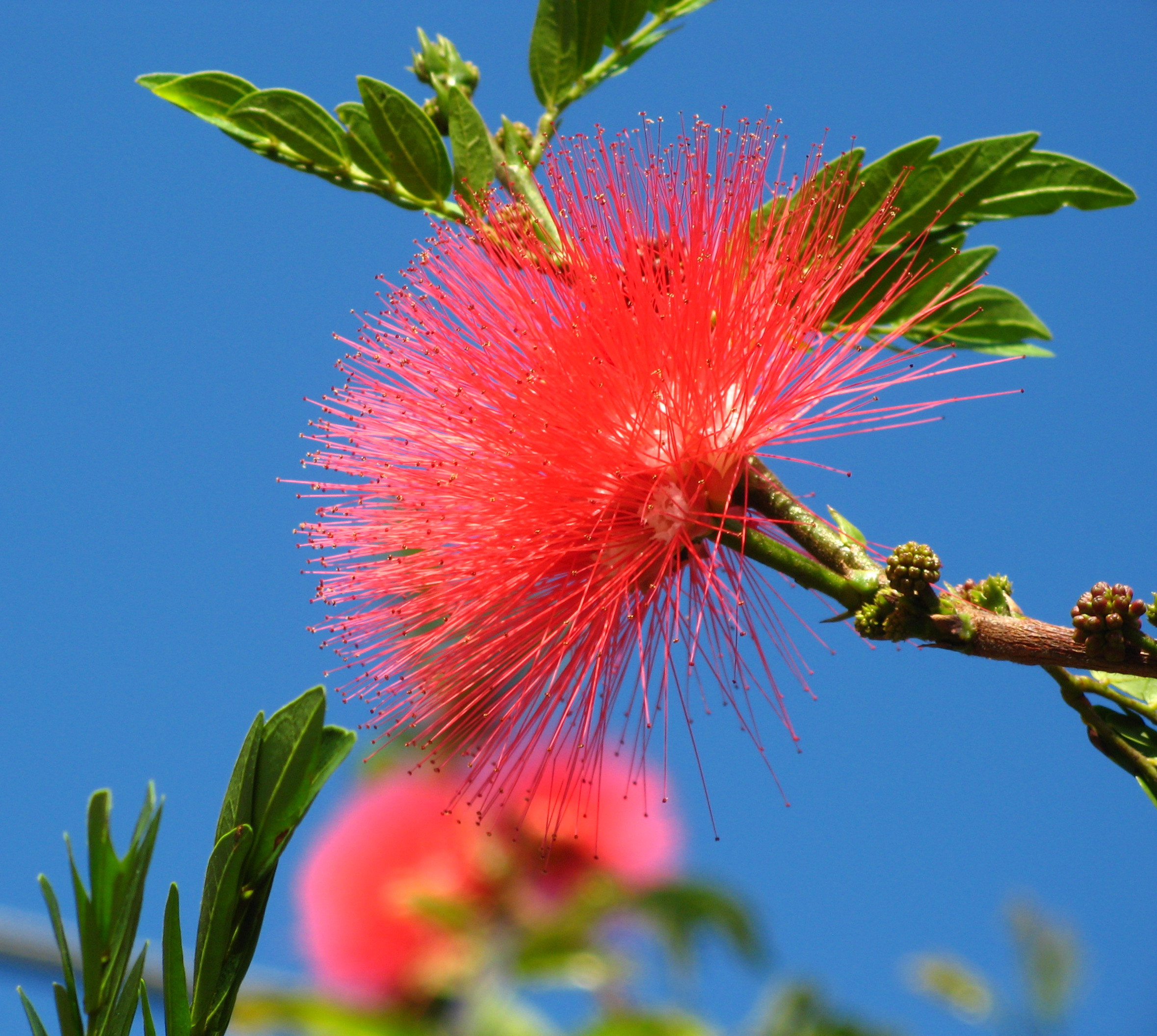 Sao Paulo Brazil (Calliandra dysantha), flower symbol of the Brazilian Savannah, Mimosaceae/Mimosa".